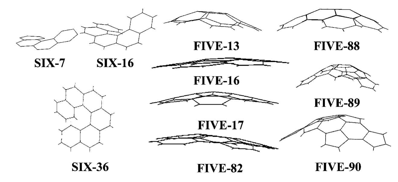 Figure 2. 3D molecular diagrams showing arching Five-13,16,17,82,88,89,90 and splitting Six-7,16,36 interactions. Five: PAH containing five membered rings and Six; PAH containing only six membered rings2. The red arrows point to the bay regions.